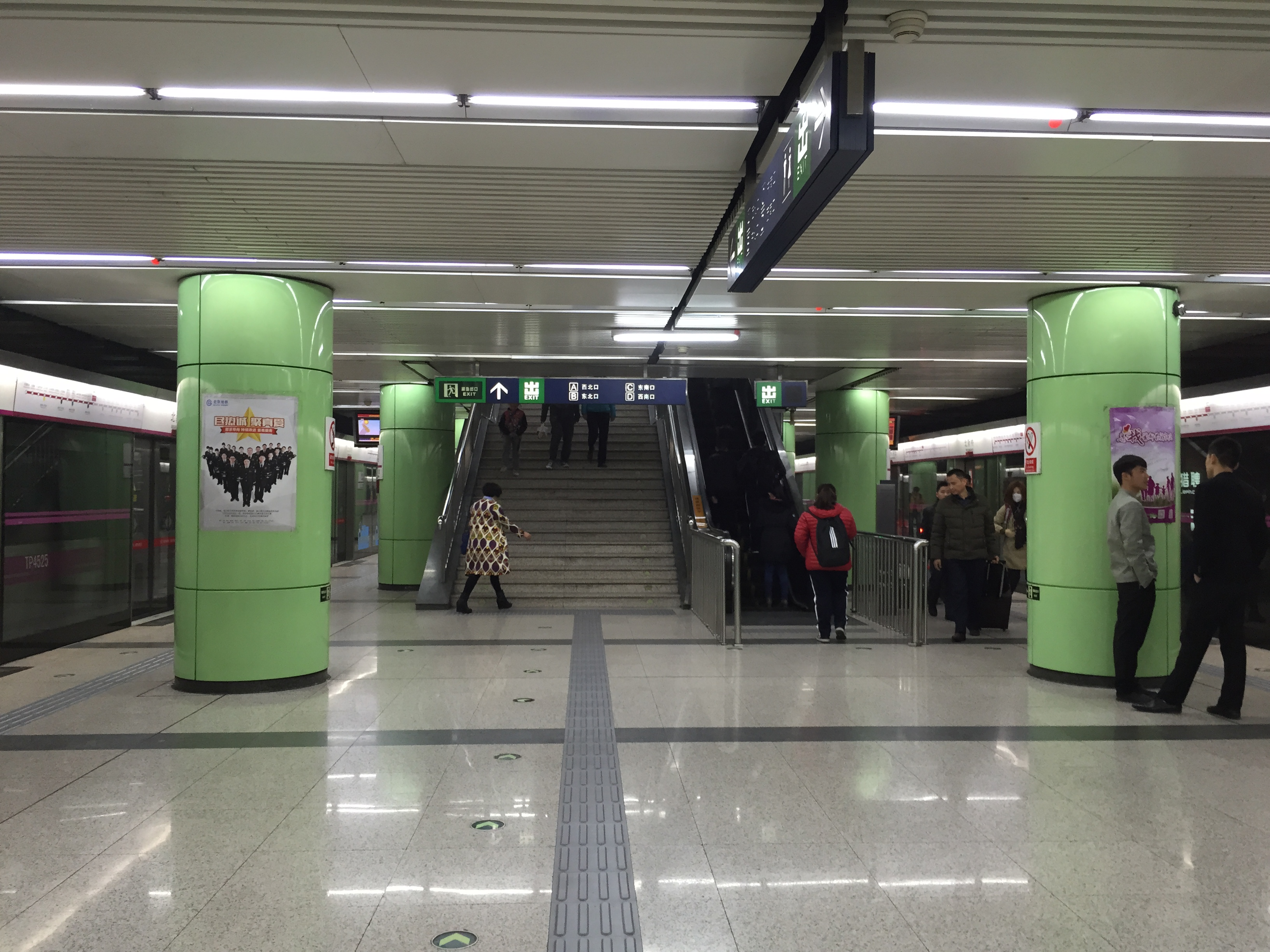 Light green pillars...